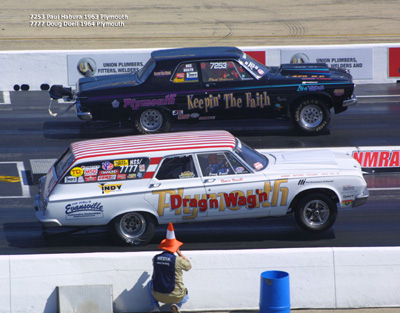 Pair of Nostalgia Super Stock Cars compete at the Monster Mopar Weekend event in October 2009